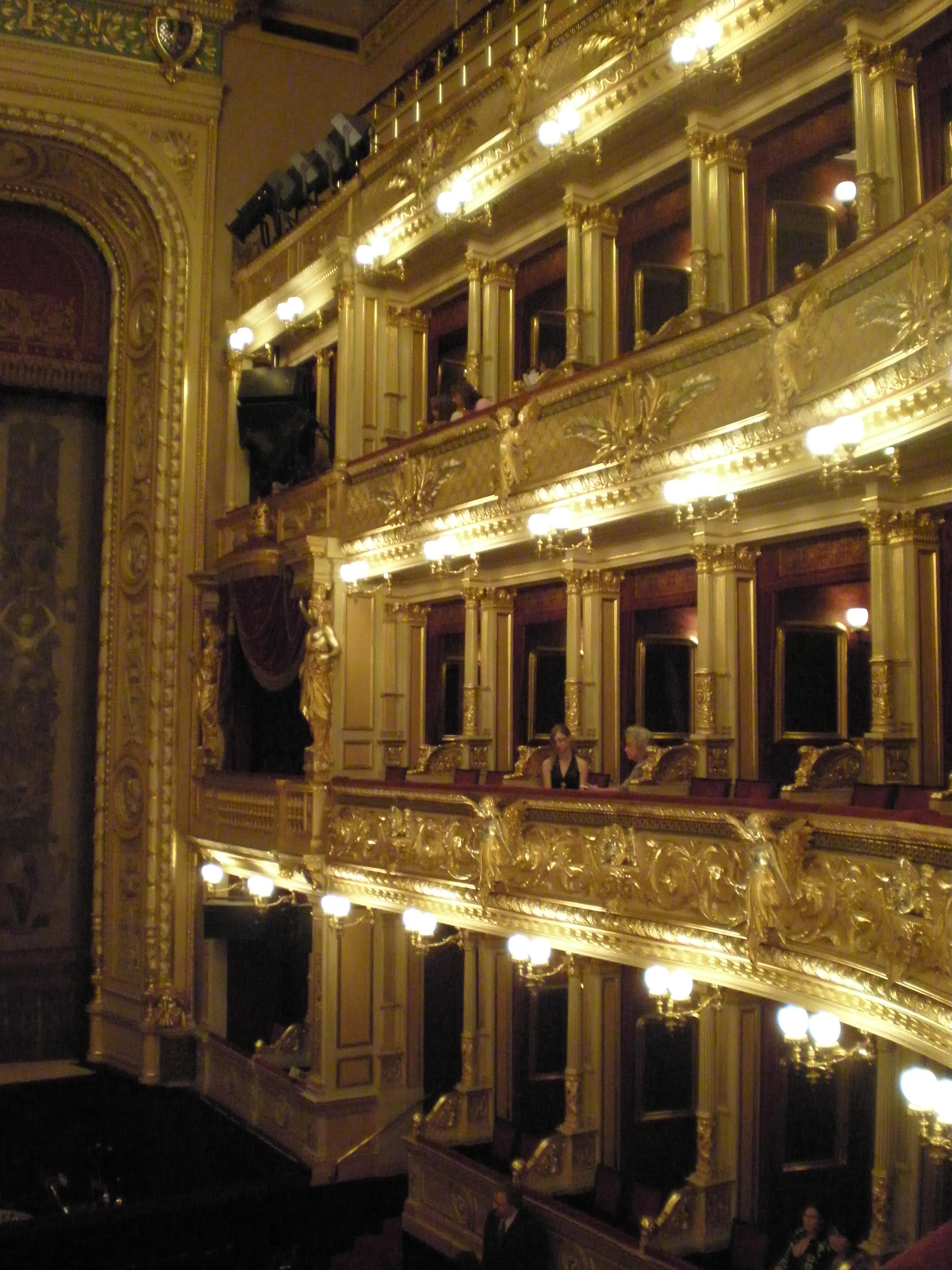 Interior of the main hall. Prague National Opera House (Národni Divadlo)